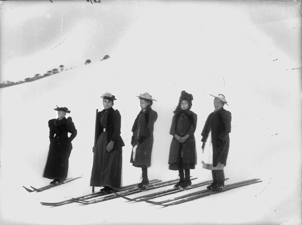 Photograph of early women's ski race at Kiandra